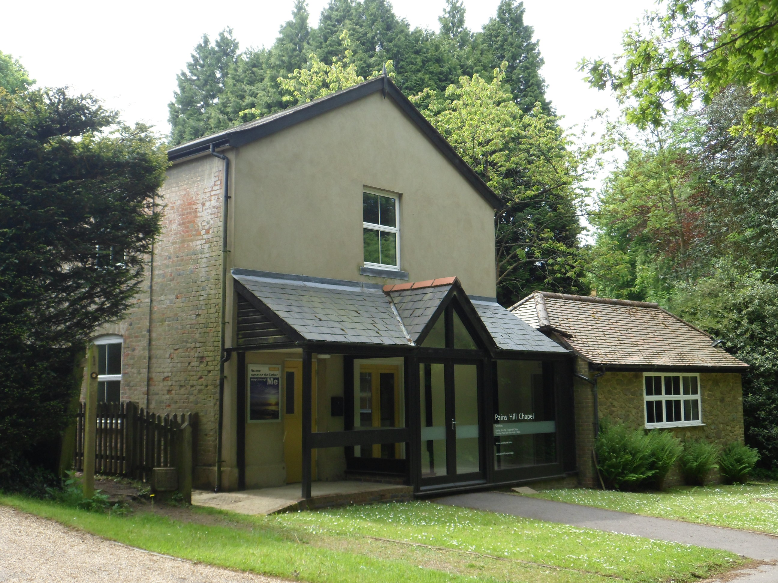 Pains Hill Chapel, Chapel Lane, Limpsfield Chart, Tandridge District, Surrey, England.